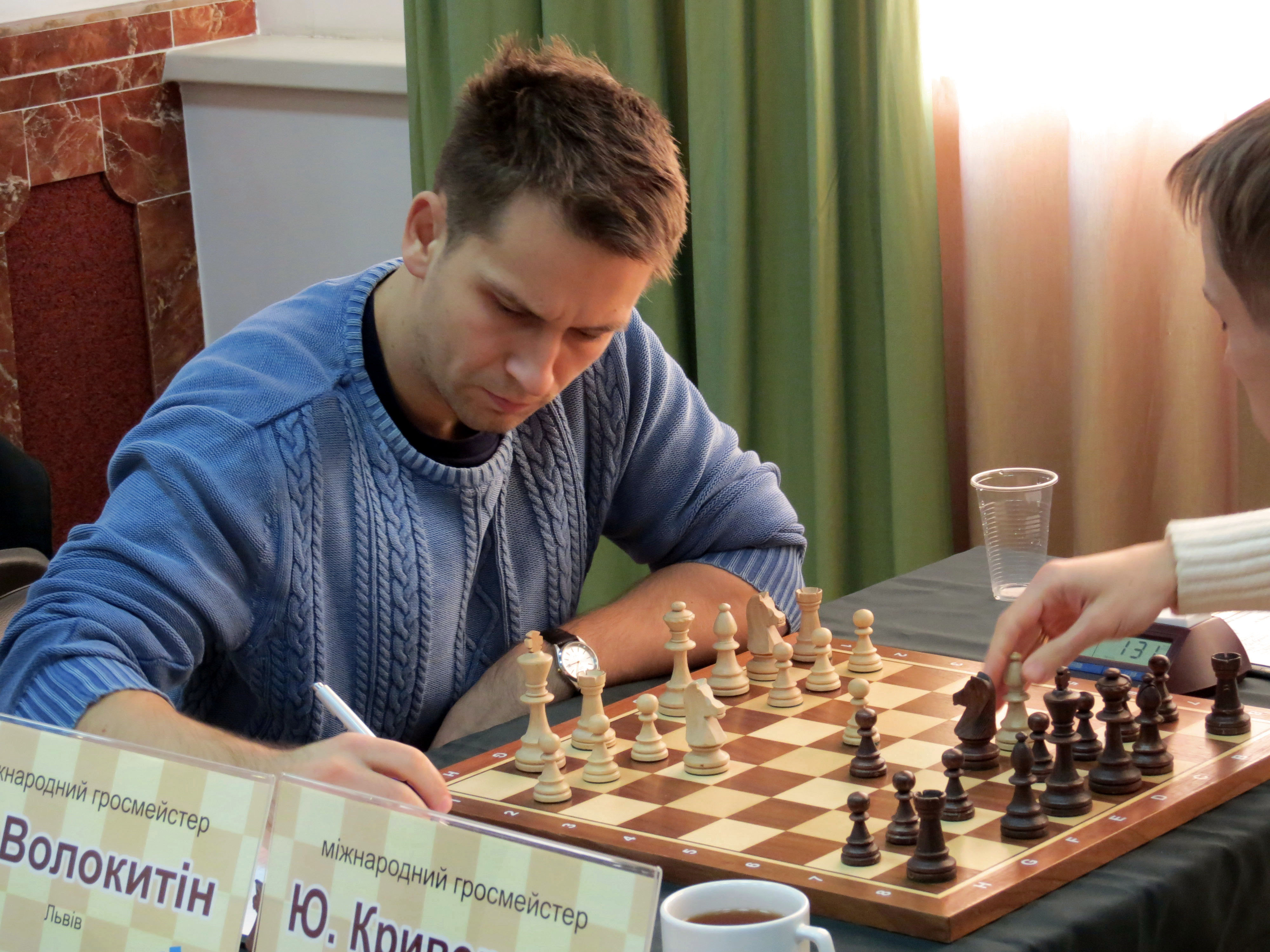 Volokitin Andriy Ukraine ch 2015